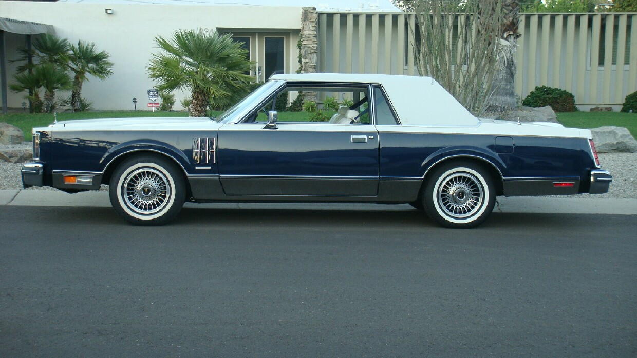 Lincoln Mark VI Bill Blass Edition 1980